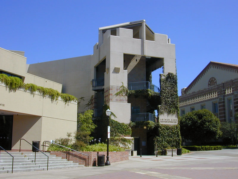 The Arthur Ashe Health Center, UCLA, Los Angeles California